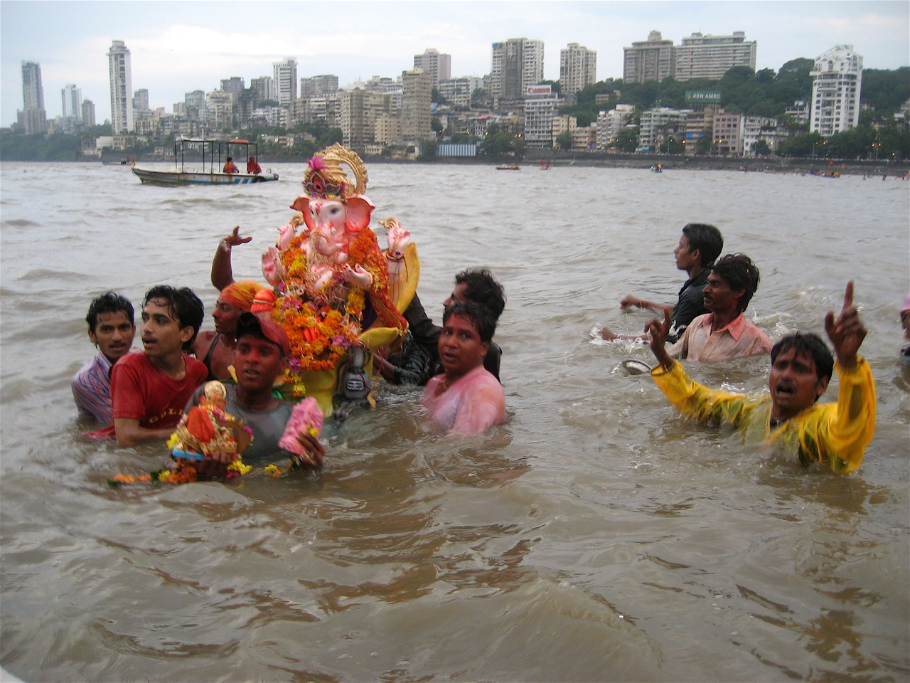 Ganesh Visarjan at Girgaum Chowpatty c.2007